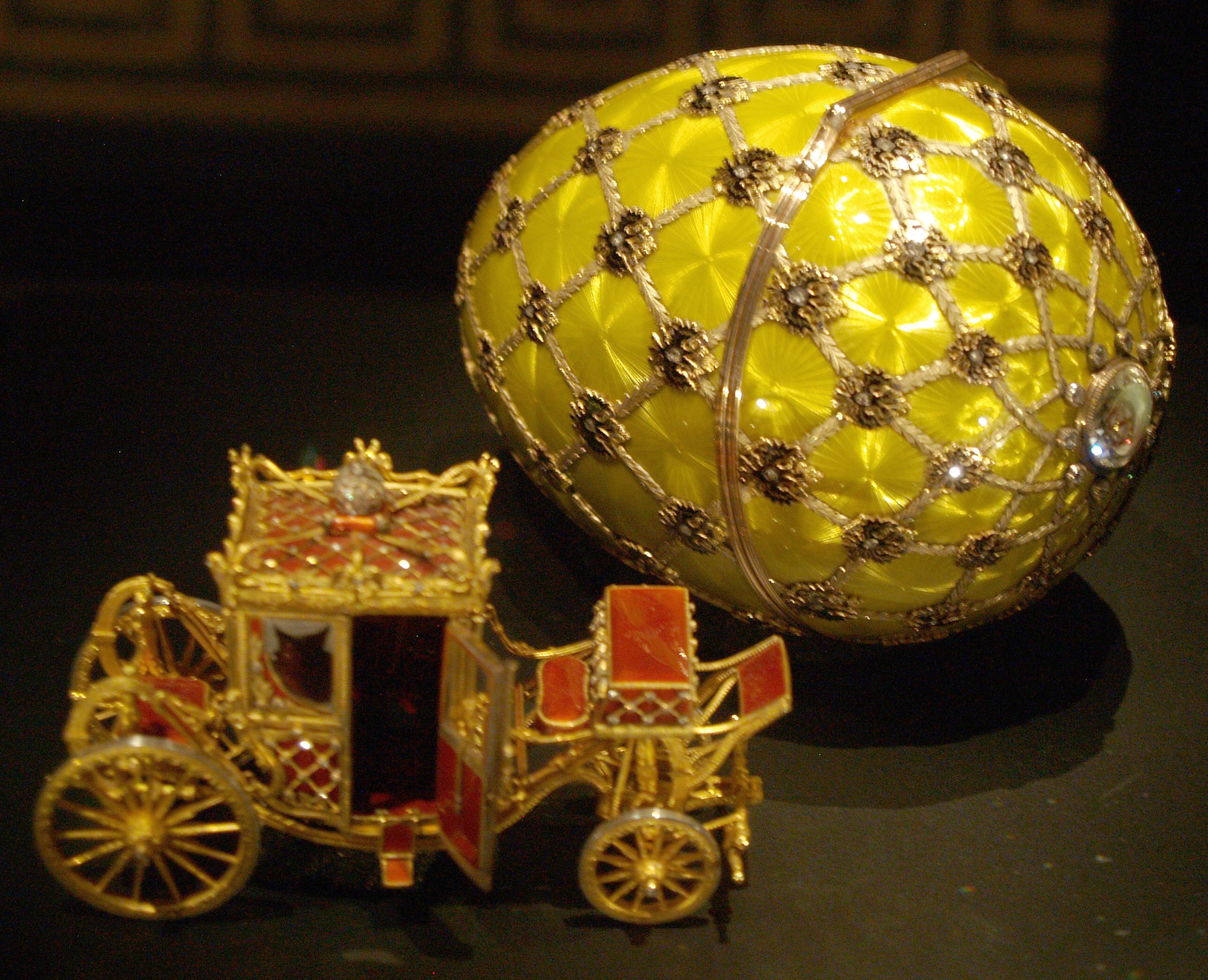 Imperial Coronation Egg, photographed at an exhibition in Rome.